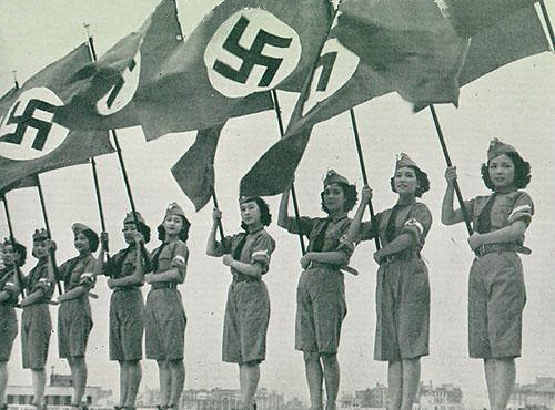 Young Japanese ladies of the Nichigeki dancing team doing a musical revue for Hitlerjugend at Tokyo's Nichigeki Music Hall, Yūrakuchō, entitled "Heil Hitler". According to the caption in Japanese, the uniform style matches more the United States Army or the Royal Thai Army.